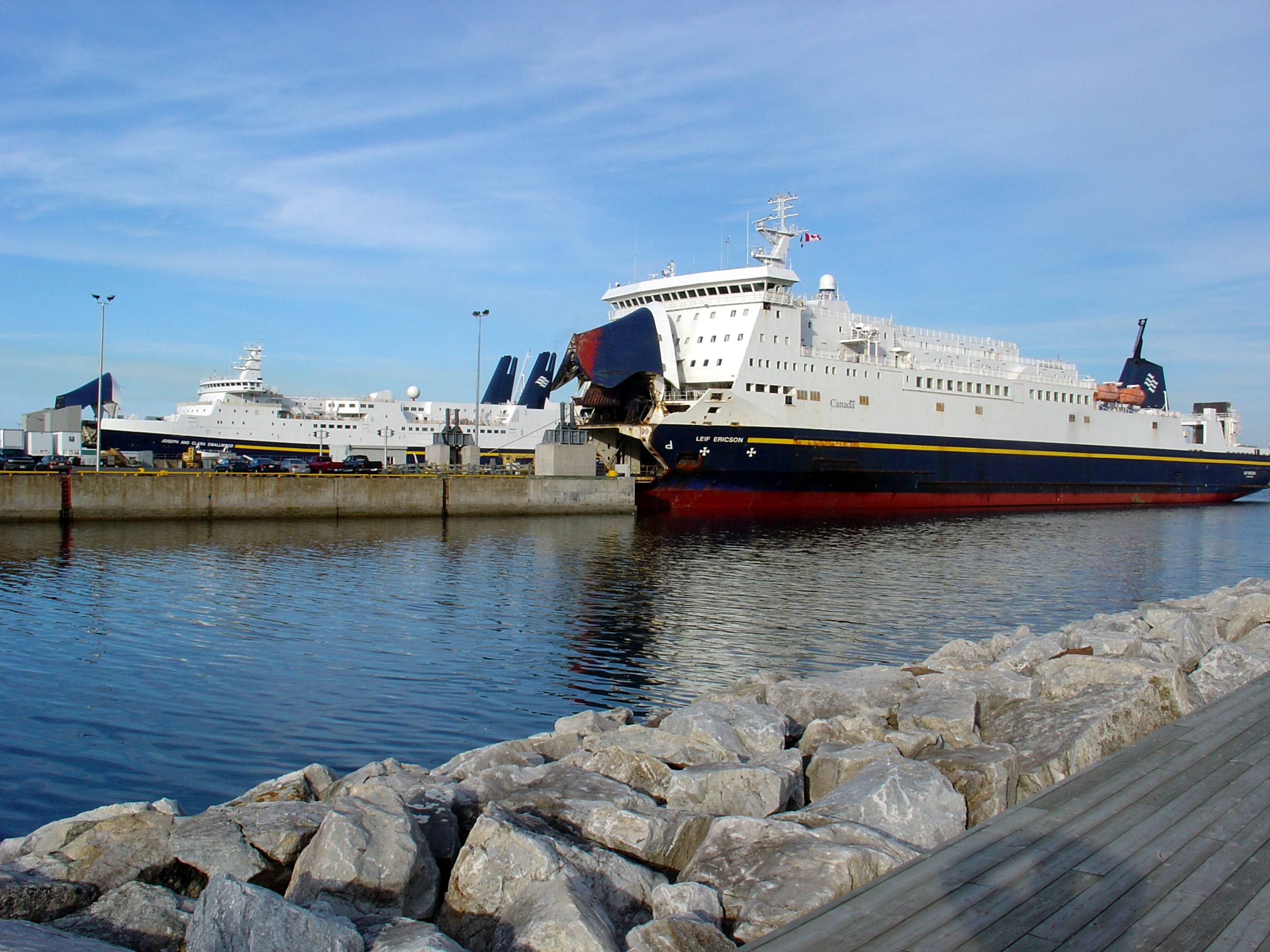 Please, have this description accessible to all by translating it in different languages. Quai d'embarquement du traversier en Nouvelle-Écosse, ainsi qu'un des traversiers se rendant à Terre-Neuve